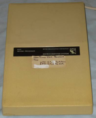 Acorn 6502 2nd processor (front & top).This is my 6502 2nd processor which was one of the first upgrades I bought for my BBC B. I have always believed that you can never have too much memory or too fast a CPU, so the BBC B's limited memory and slower CPU were just waiting for an upgrade. Acorn produced a special version of BASIC (Hi-BASIC) and View (Hi-View) to maximise the amount of memory abailable, Computer Concepts also produced a special version of Wordwise (Hi-Wordwise) on disc.Here is the brochure describing the 6502 2nd processor. The pictures show: The front view of the 6502 2nd processor show the typical "cheese wedge" shape and the labels. The hand written label was my reminder of the commands to load the language I wanted. The right side showing the "cheese wedge" shape, the left side is the same. The back of the 6502 2nd processor showing the power cable, fuse and on/off switch. The bottom of the 6502 2nd processor showing the ribbon cable to connect to the TUBE interface underneath the BBC micro or Master and the serial number (03-ANC01-1003860). Inside the 6502 2nd processor with the psu at the front and the circuit board in the middle. There is a lot of empty space in the "cheese wedge"! The 6502 2nd processor circuit board with the ribbon cable to the right and the Ferranti ULA next to it. the GTE 65SC02P-1 CPU is next to the ULA with the Boot ROM next to it. The bottom of the 6502 2nd processor circuit board.